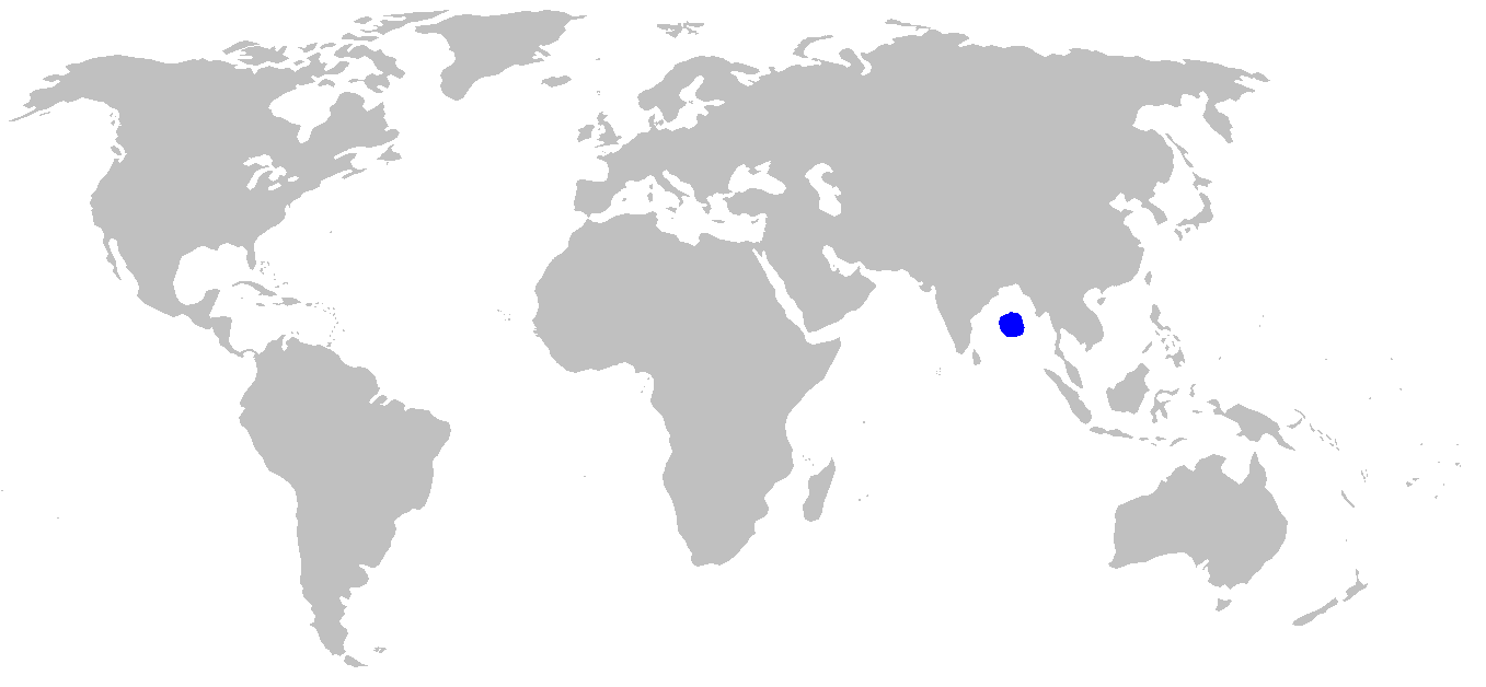 Distribution map for Apristurus investigatoris